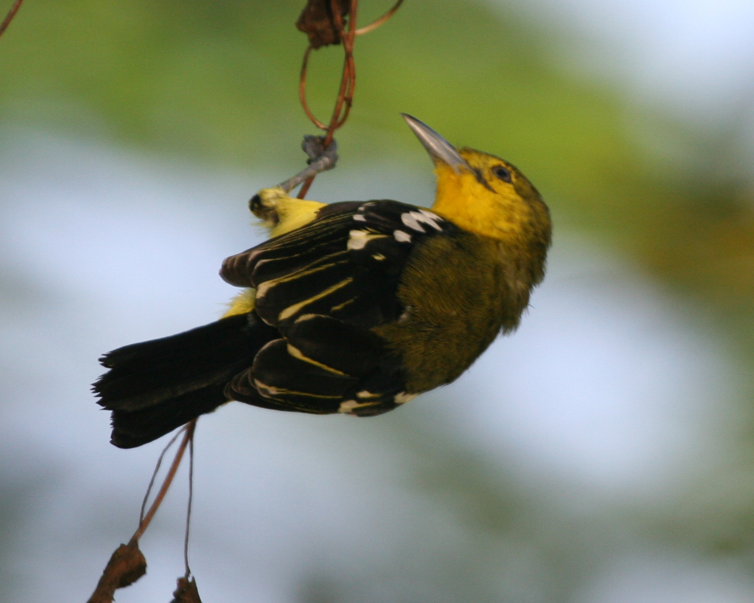 Common Iora Aegithina tiphia 31st. August 2005 Johor Bahru, Malaysia Distribution